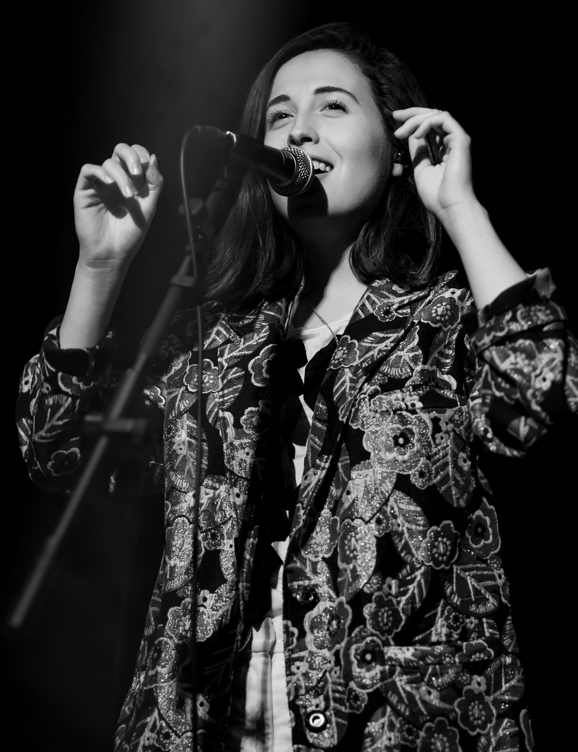 Alice Merton performing live at the Moroccan Lounge in downtown Los Angeles, California, on Monday, December 11, 2017.